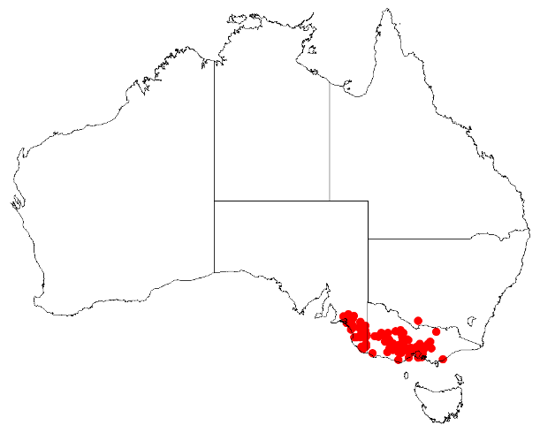 Drosera aberrans occurrence downloaded from avH on 7 March 2019 using the